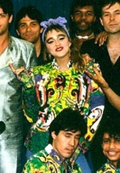 Madonna during The Virgin Tour of 1985.